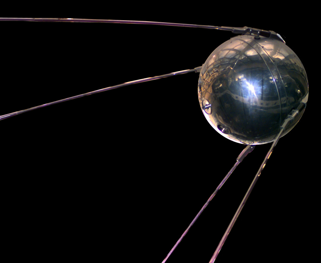 A replica of Sputnik 1, the first artificial satellite in the world to be put into outer space: the replica is stored in the National Air and Space Museum.